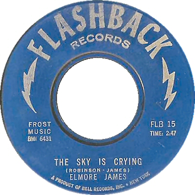 The Sky is Crying